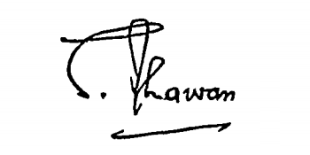 Signature of Prof. Satish Dhawan dated 1976